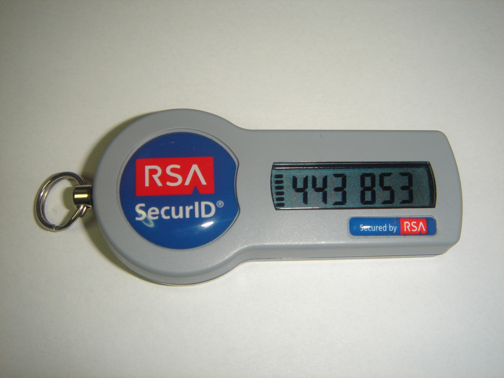 An RSA SecurID SID700 token without USB connector